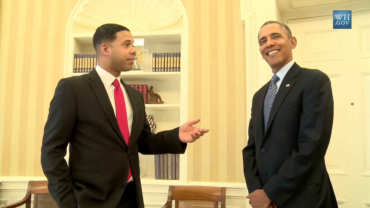 Screenshot at 0:19 of video of U.S President Obama with YouTube video content creator Iman Crosson. Screenshot is essentially the video's "thumbnail" view as used by the website.